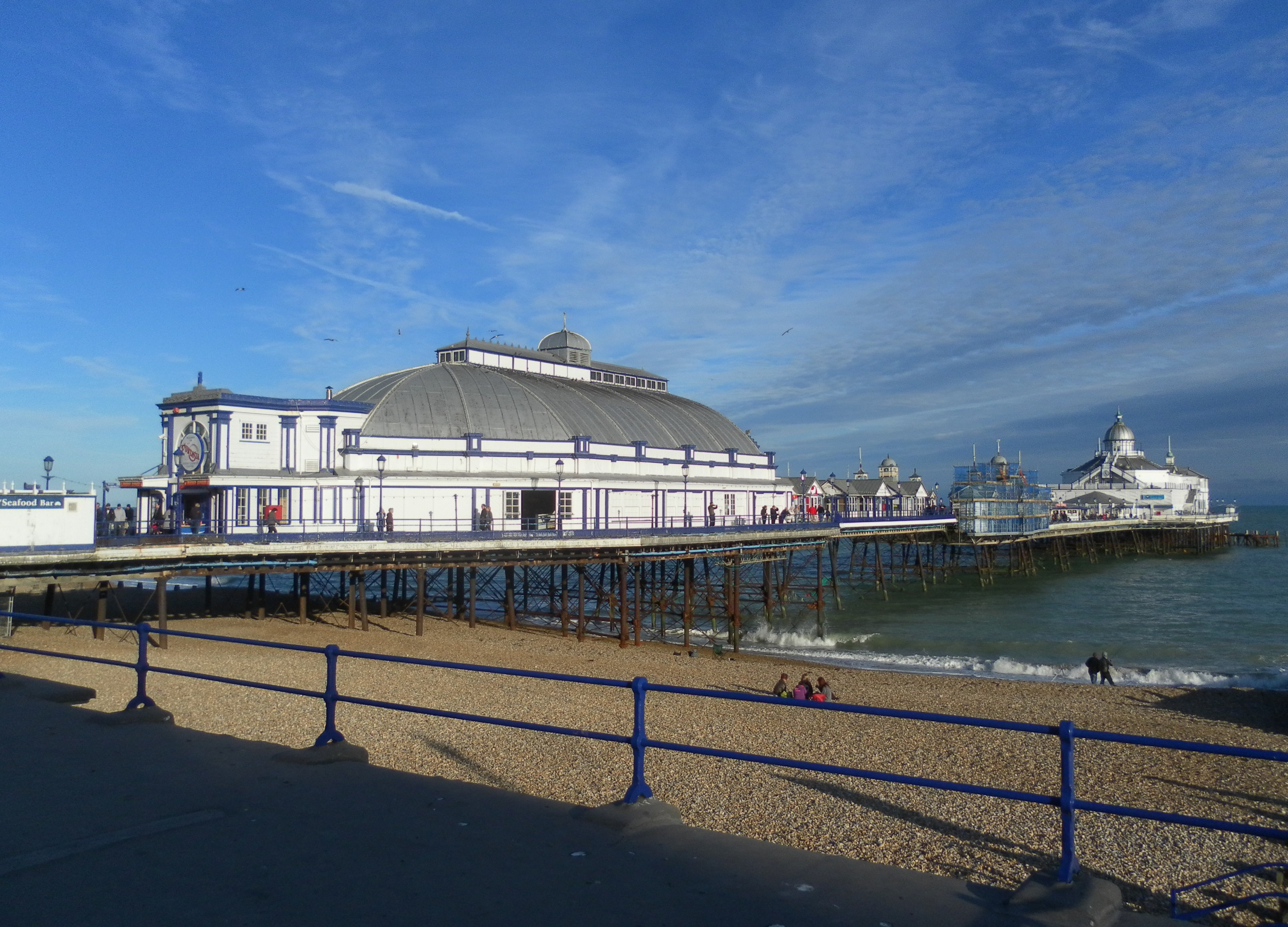 Eastbourne Pier, Grand Parade, Eastbourne, East Sussex, England. Designed in 1870 by Eugenius Birch. Listed at Grade II* by English Heritage (NHLE Code 1353116)